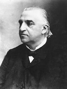 Professor Jean-Martin Charcot, a noted French psychiatrist.